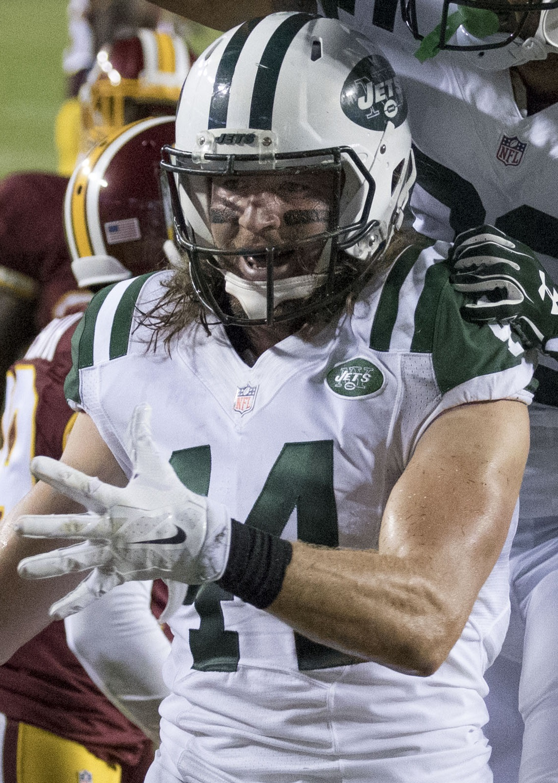 Jets at Redskins 8/19/16